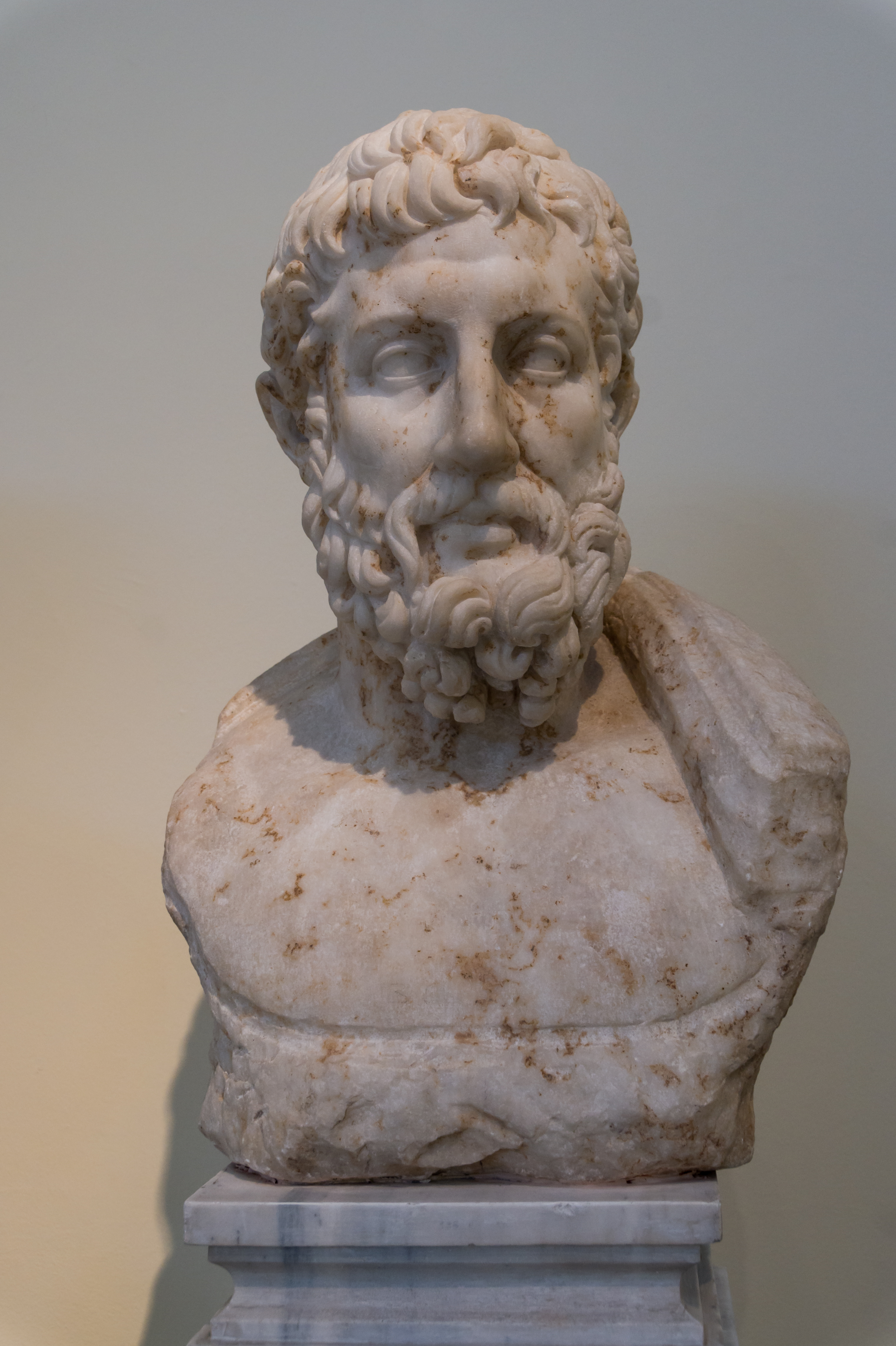 Portrait bust of Metrodorus of Lampsacus (the younger) (ca.331 - ca.278 BCE), a philosopher, friend of Epicurus. Roman copy (ca. 120/130 CE) of an Hellenistic original ca. 280 - 250 BCE. N°368